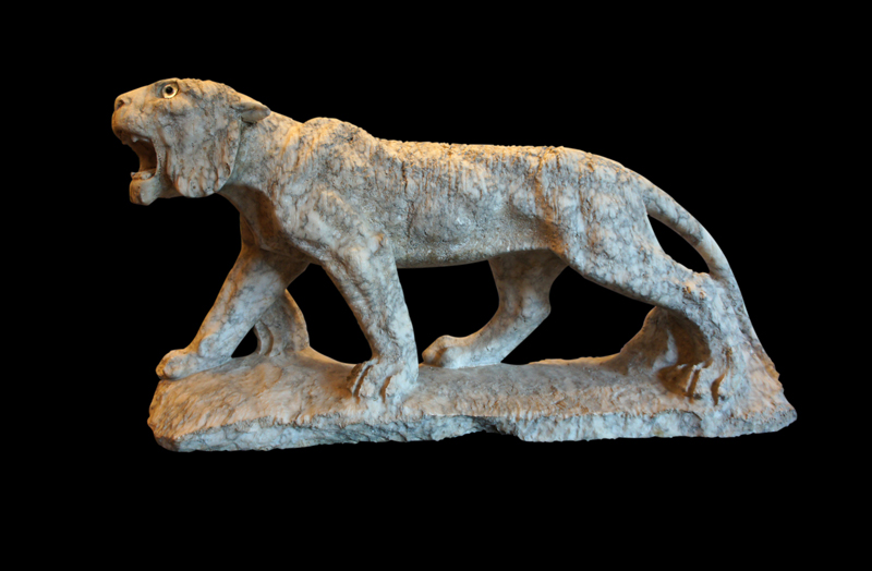 Statua raffigurante una tigre in marmo cipollino mandolato I - II secolo d.C.